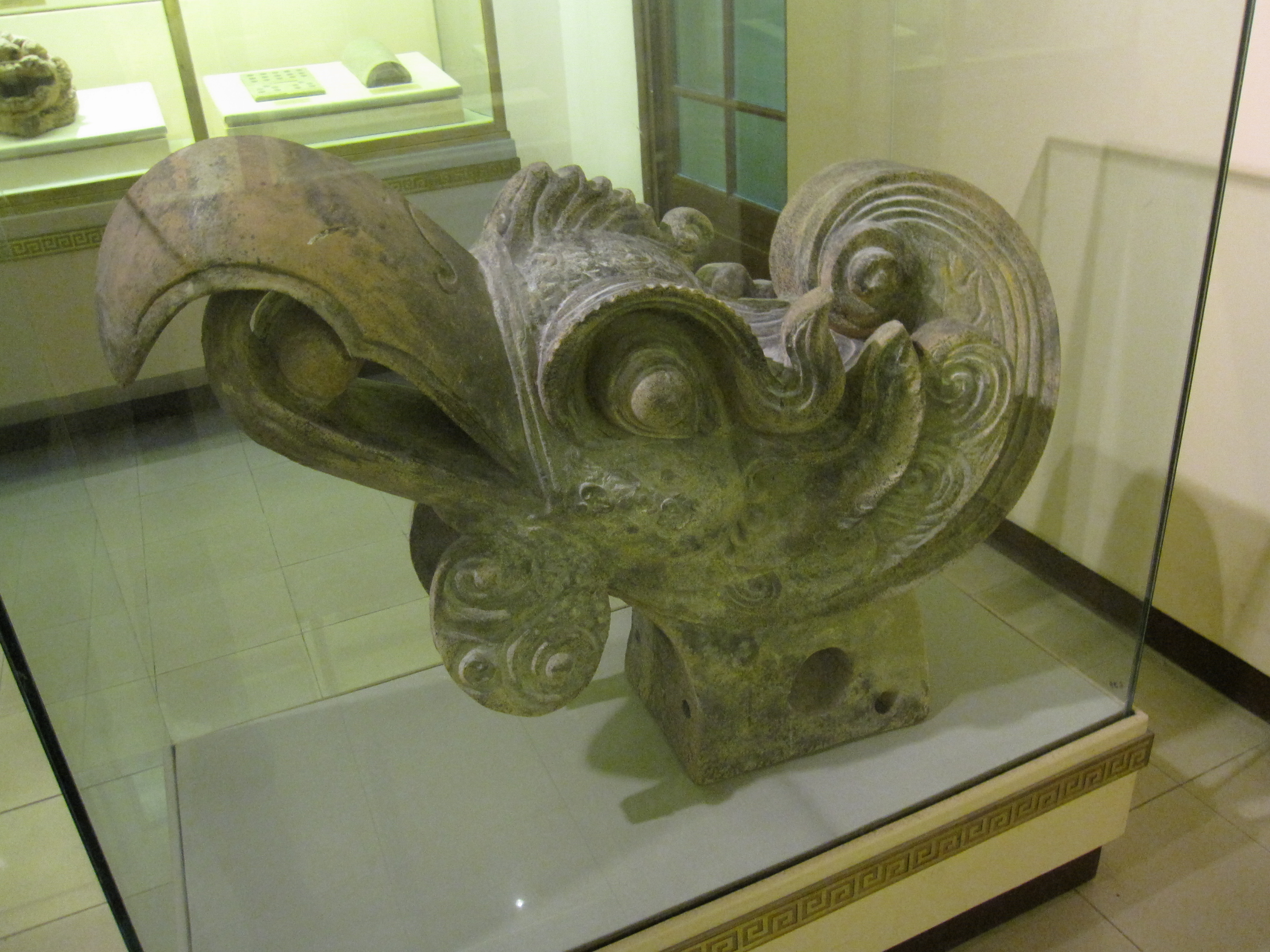 Phoenix head. Terracotta, Trần-Hồ dynasty, 14th-15th century. Architectural decoration. National Museum of Vietnamese History, Hanoi.